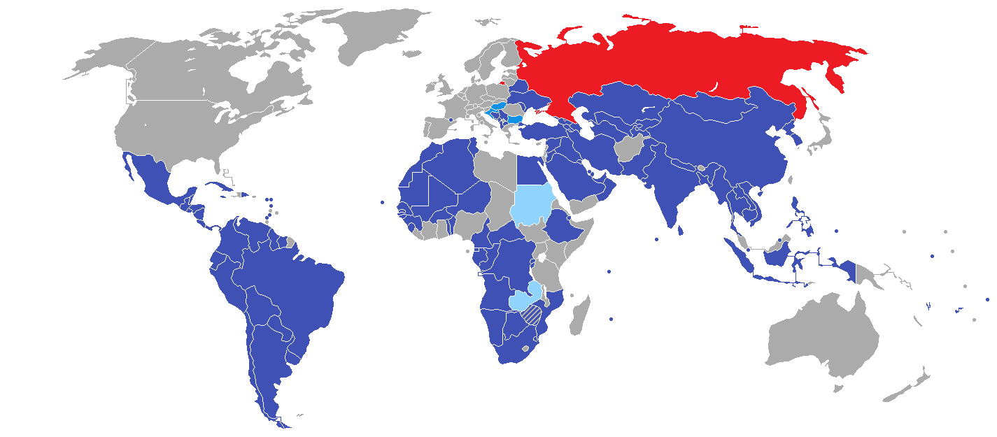 Visa policy of Russia for diplomatic and service category passport holders Russia including Crimea Visa free access for diplomatic and service category passports Visa free access for diplomatic passports